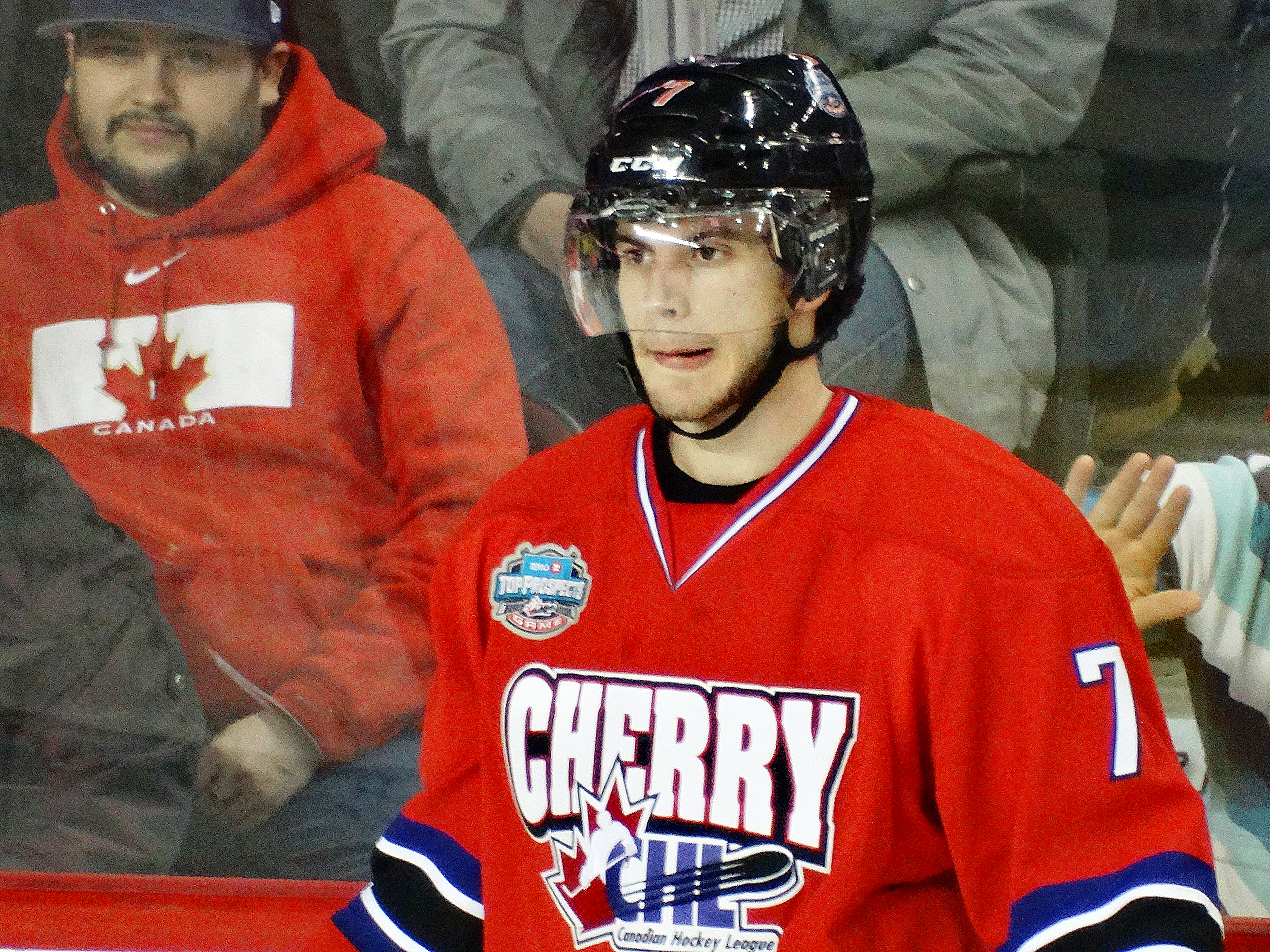 Anthony DeAngelo, American ice hockey defenseman at the CHL / NHL Top Prospects Game